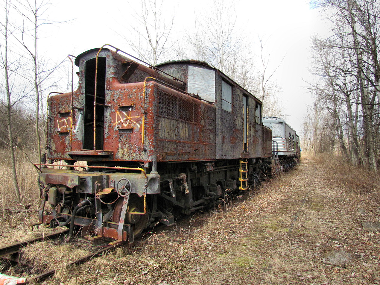 New York Central S-Motor No. 100 (nee 6000) sits in a forest south of Albany, NY awaiting restoration. Built in 1904 this was the world's first electric locomotive designed and built for independent main line operation.